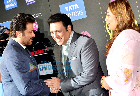 Govinda at green carpet of IIFA 2014